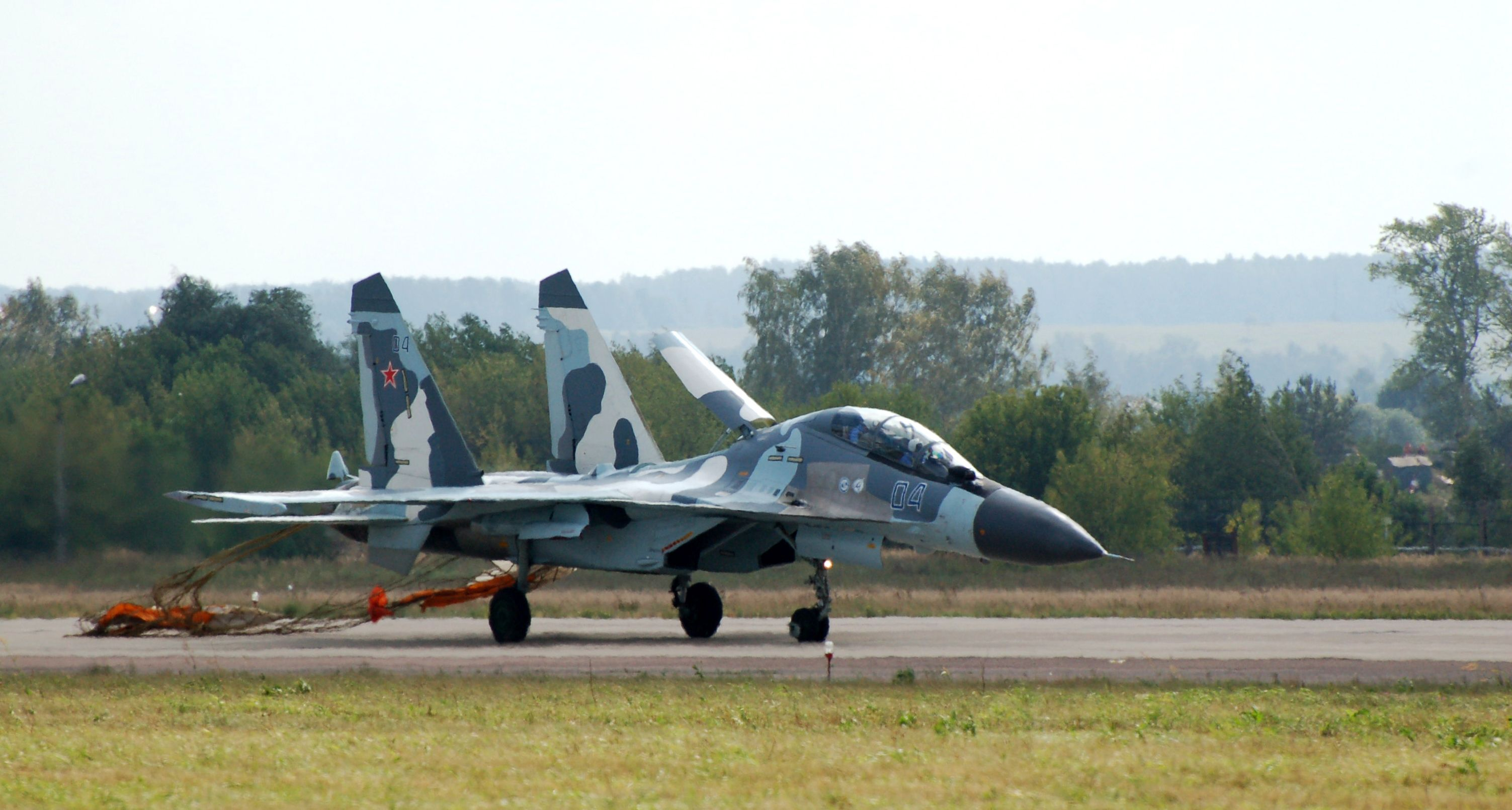 Су-30МКМ after landing (the international aerospace salon MAKS-2007)